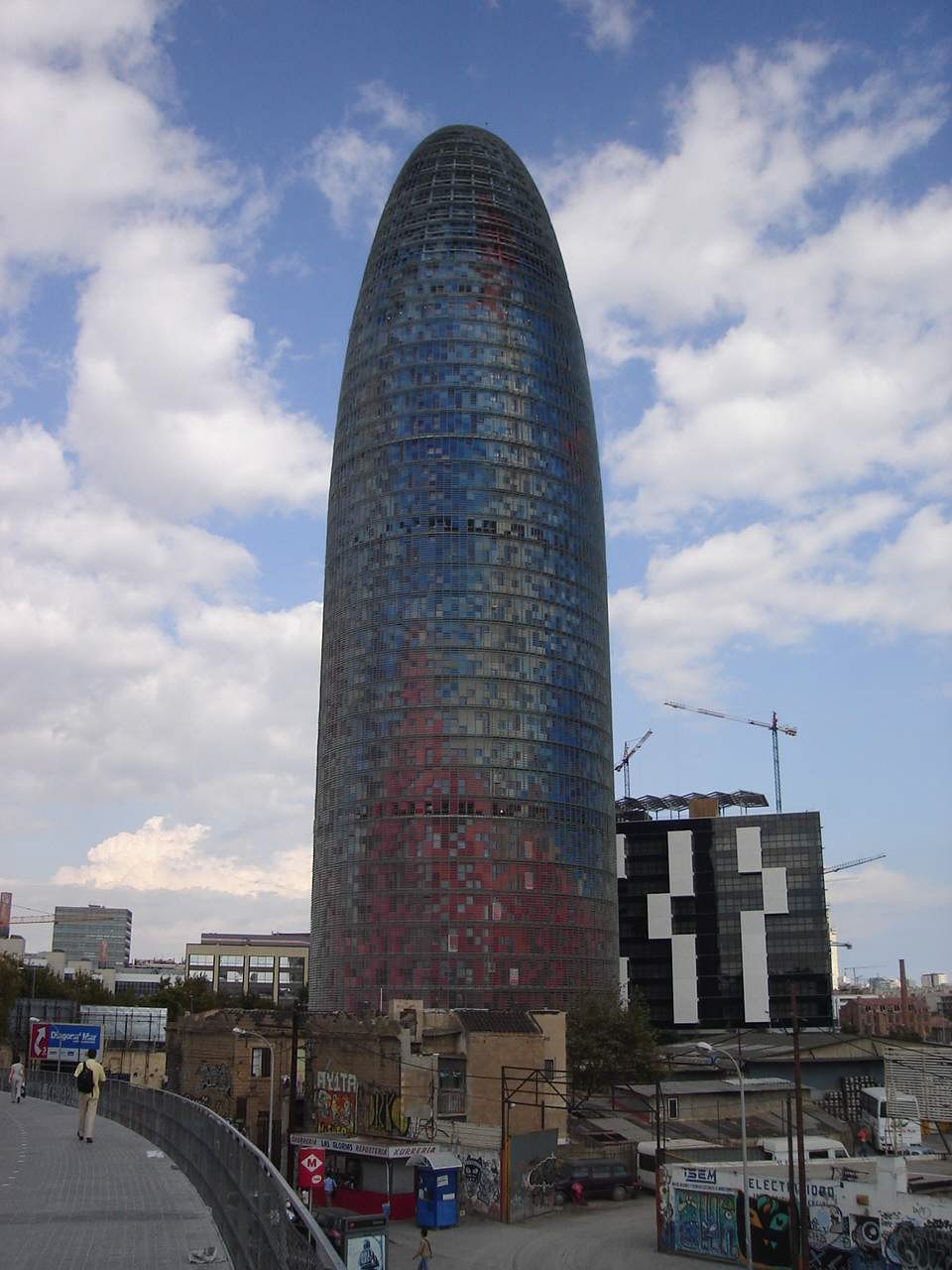 Agbar Tower by arquitect Jean Nouvel, Barcelona, Spain.